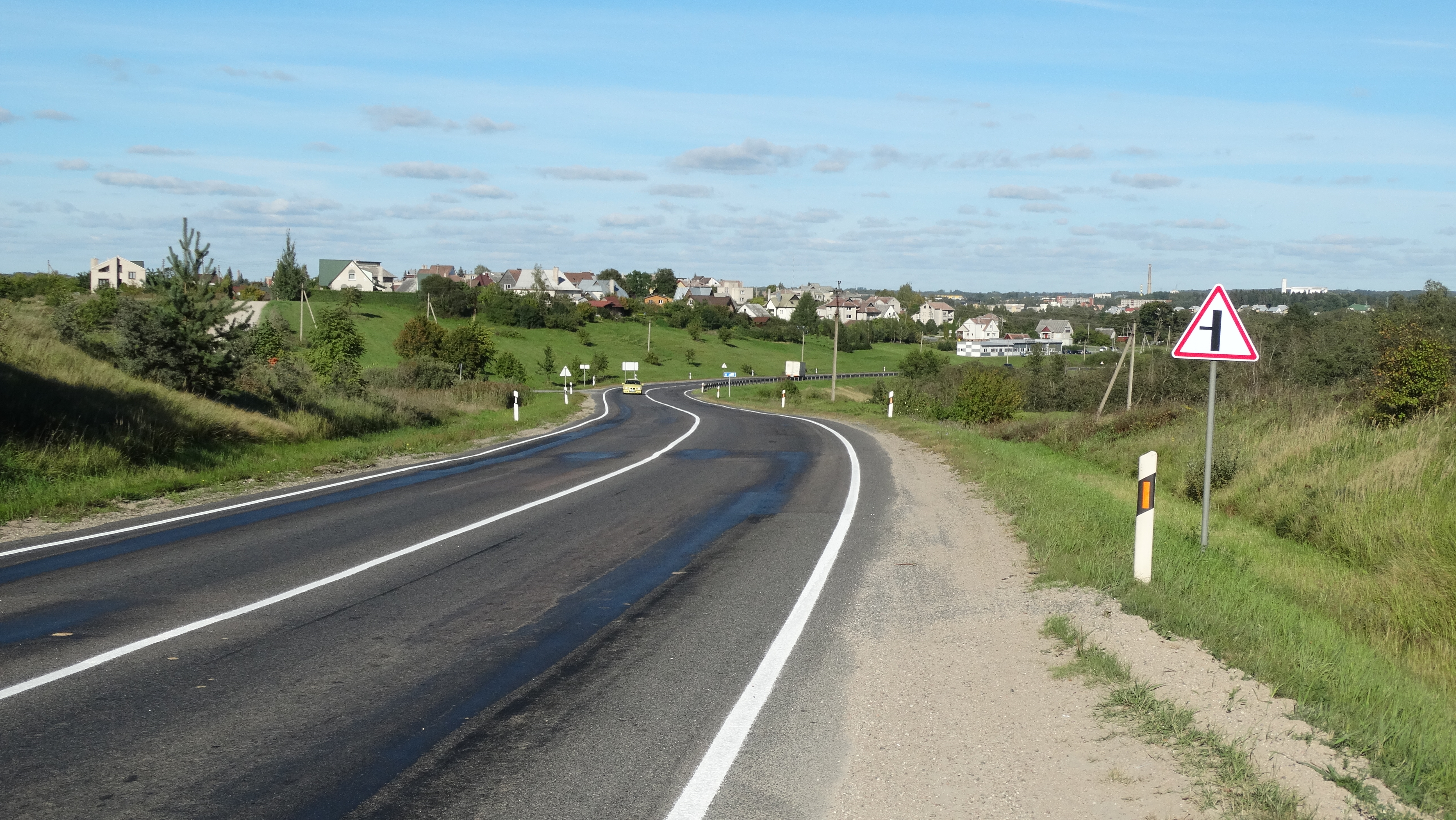 Road 208, Utena, Lithuania